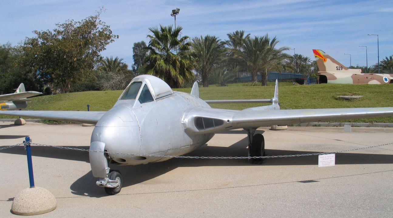 Description: De Havilland Vampire at Muzeyon Heyl ha-Avir, Hatzerim airbase, Israel. 2006. Source: Photo by me, User:Bukvoed.